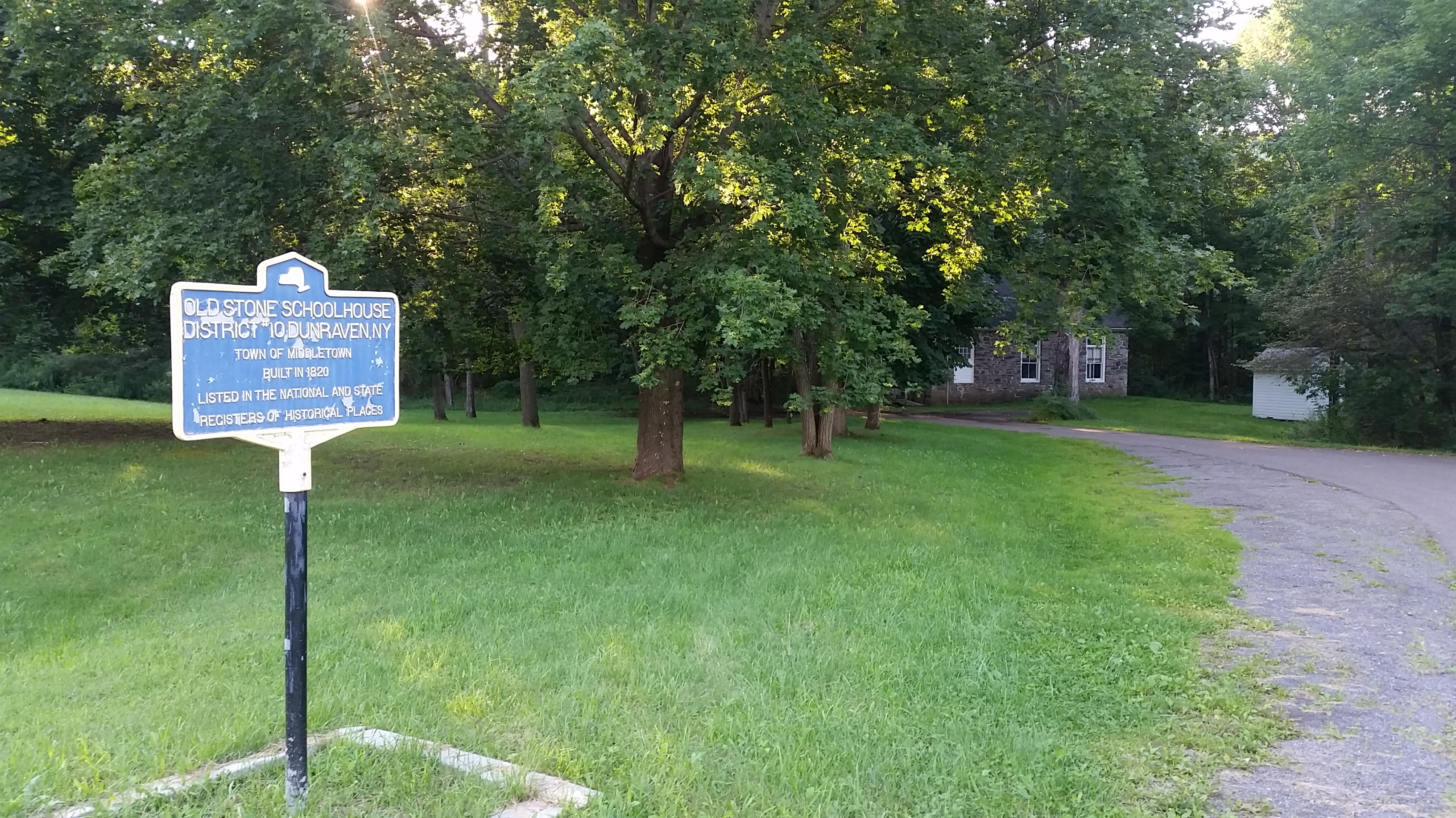 New York State historic marker for the Stone School House in Middletown, NY (the Ulster County Middletown) (the marker by the road, not the one by the school). Listed on the National Register as the District 10 School.